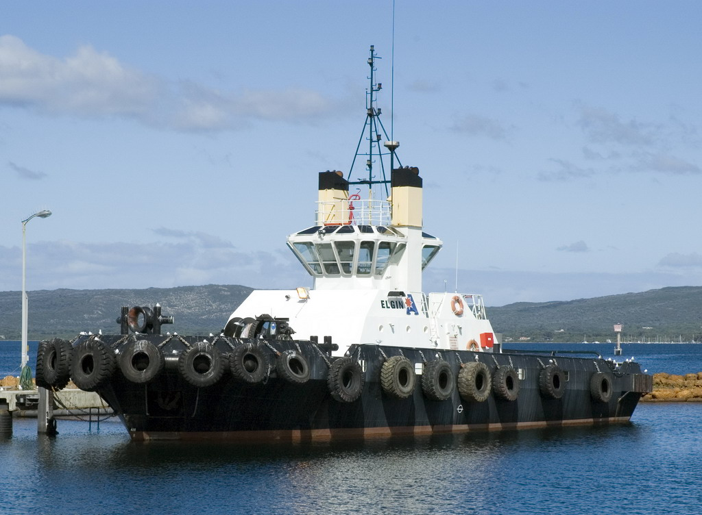 Tugboat "Elgin" - Albany, Western Australia.